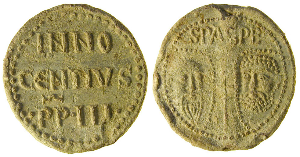 A medieval lead Papal bulla of Pope Innocent III, 1198-1216. The obverse of the bulla contains the legend INNOCENTIVS PP III, PP standing for 'Pastor Pastorum' or 'Shepherd of Shepherds'. The obverse has a border of pellets. On the reverse can be seen depictions of Saints Peter and Paul beneath an inscription reading SPASPE (an abbreviation standing for St. Paul and St. Peter). St. Paul is seen on the left of the seal looking right, with a long pointed beard, while St. Peter is on the right facing left and has a rounded face with beard and hair formed of pellets. Both faces are contained within beaded borders and separated from one another by a crozier. Like the obverse type, the reverse has a border of pellets. This example measures 38.86mm in diameter, 6.28mm in thickness, and weighs 52.78g. Papal bullae such as this would have acted as seals on official Papal documents to authenticate their provenance and authority.